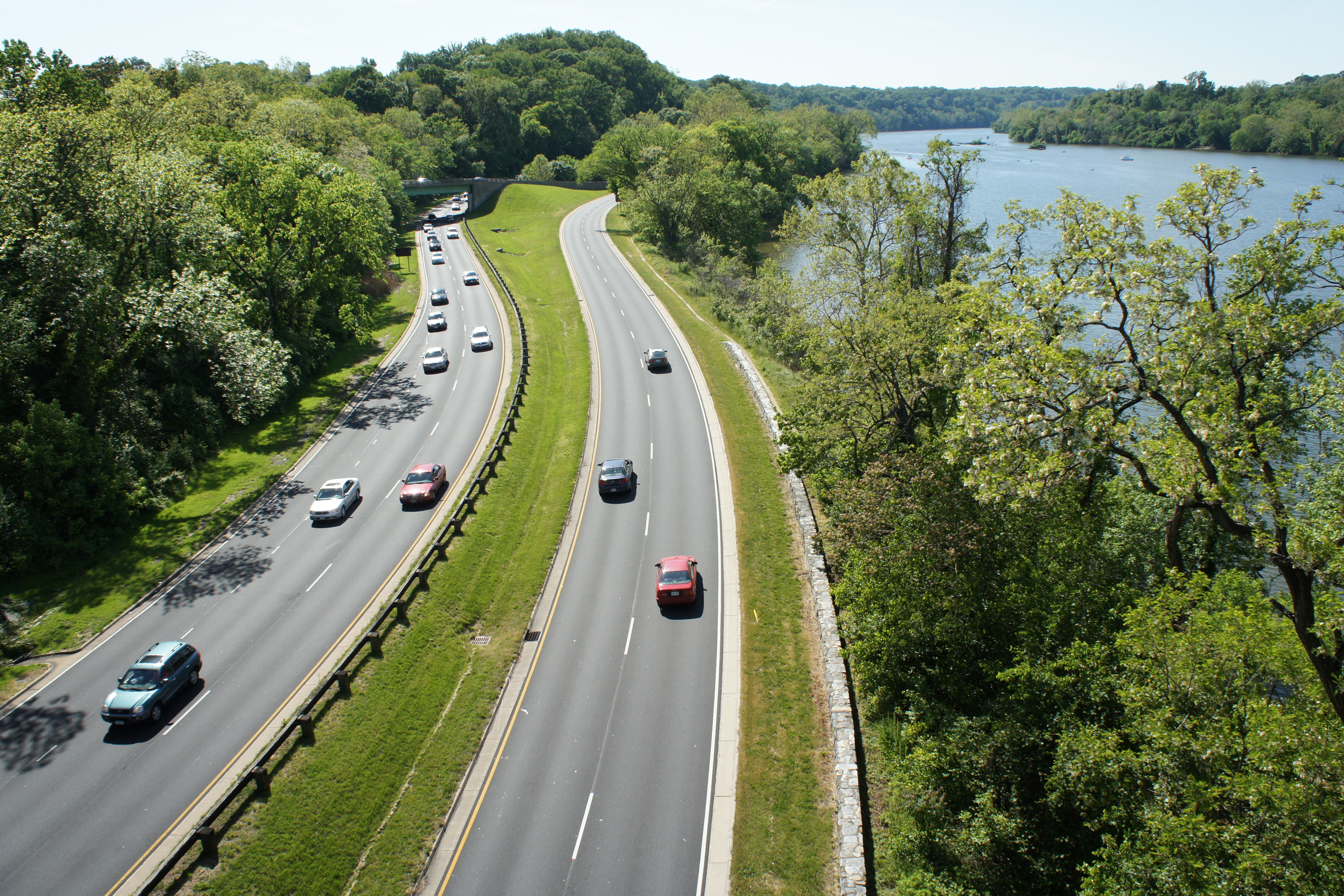 George Washington Memorial Parkway near Rosslyn, Virginia, in the United States. The Potomac River is at the right. The Three Sisters, rocky islets in the Potomac River, can also be seen.